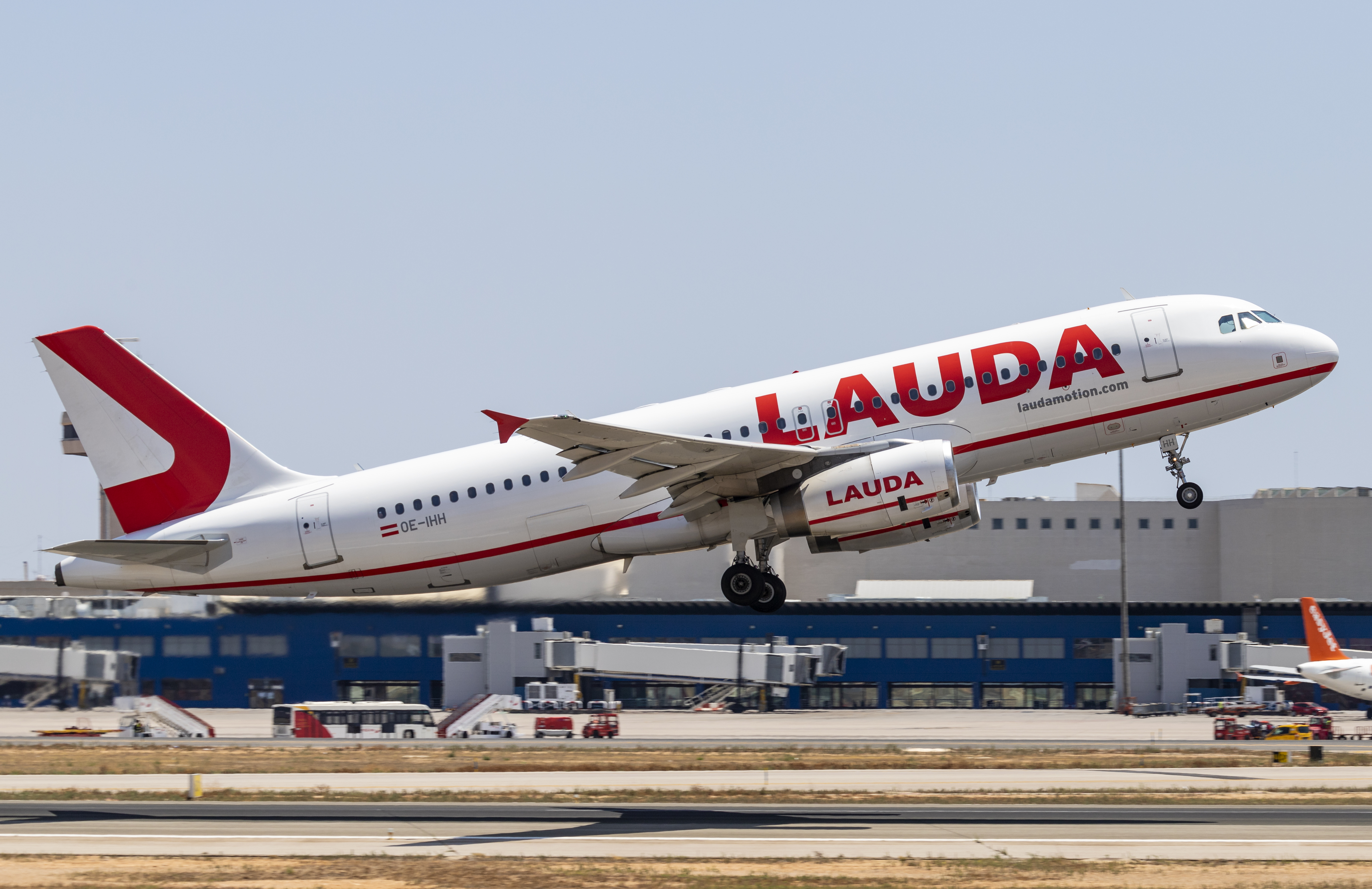 Palma de Mallorca/Son Sant Joan Airport, Airbus A320-200 (OE-IHH) of Laudamotion taking off from runway 24R.